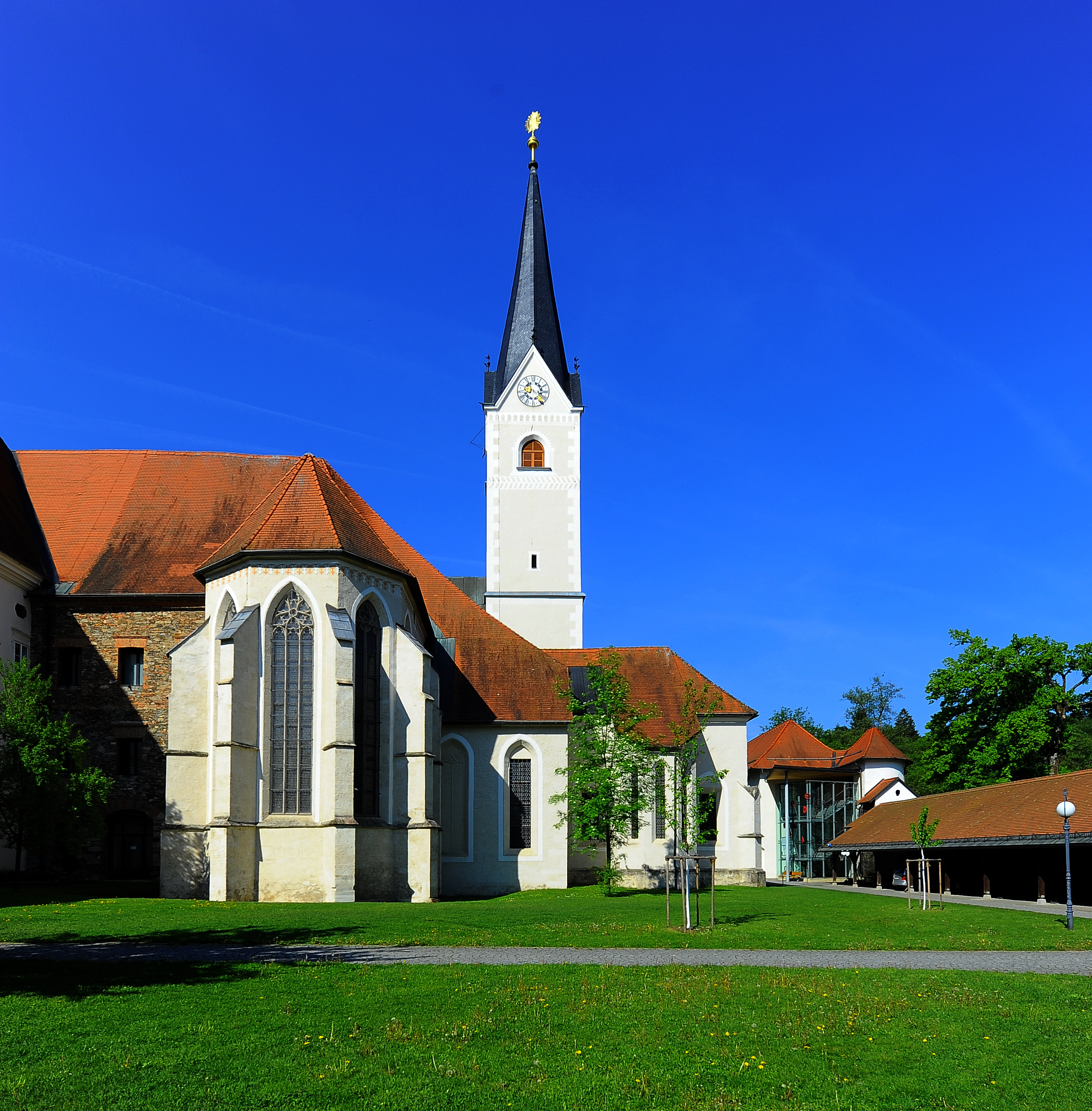 Parish and abbey church at the cistercian monastery Viktring in the 13th district "Viktring", municipality Klagenfurt on the Lake Woerth, Carinthia, Austria, EU